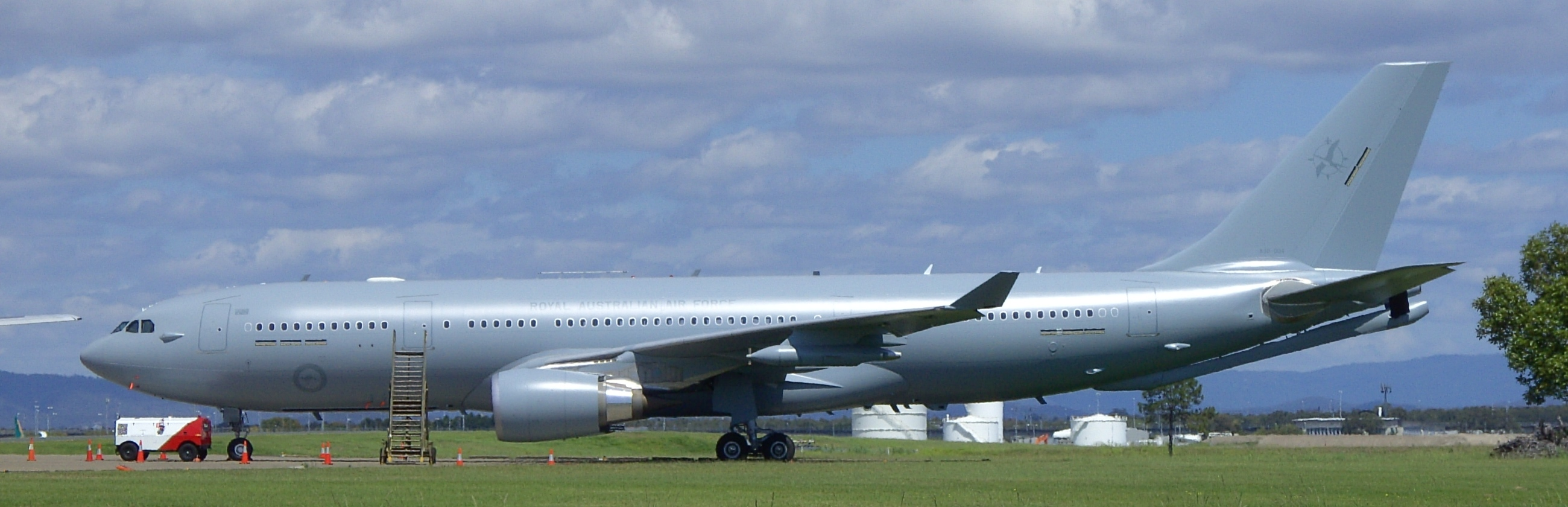 KC-30A of the Royal Australian Air Force, tail number A39-004, at Brisbane Airport (Qantas conversion facility), 6 November 2011.